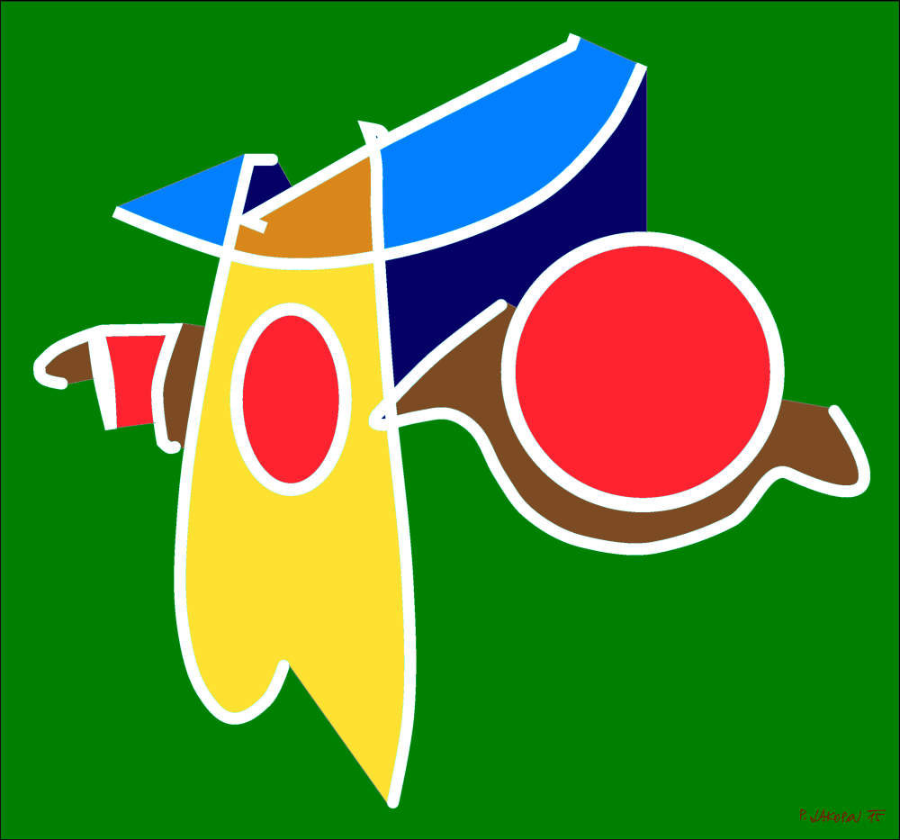 Primož Jakopin, 2015, 'N'Toko Le Toubab', colour composition, inspired by the artistic signature of Slovenian rapper N'toko and the colours of name's country flag, of Congo and Zaire, colours of the seal of Kinshasa as well as Pan-African colours.